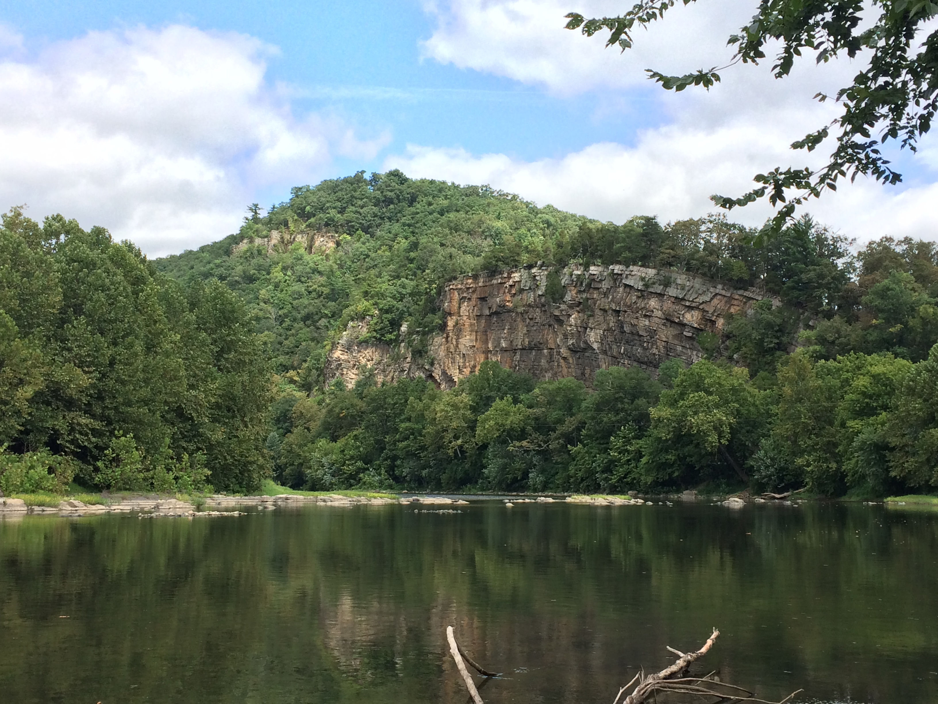 Hanging Rocks rising nearly 300 feet (91 m) above the South Branch Potomac River in Wappocomo, Hampshire County in the U.S. state of West Virginia. Photograph of Hanging Rocks from the southeast, along the South Branch Potomac River, by Justin A. Wilcox, Washington, D.C.